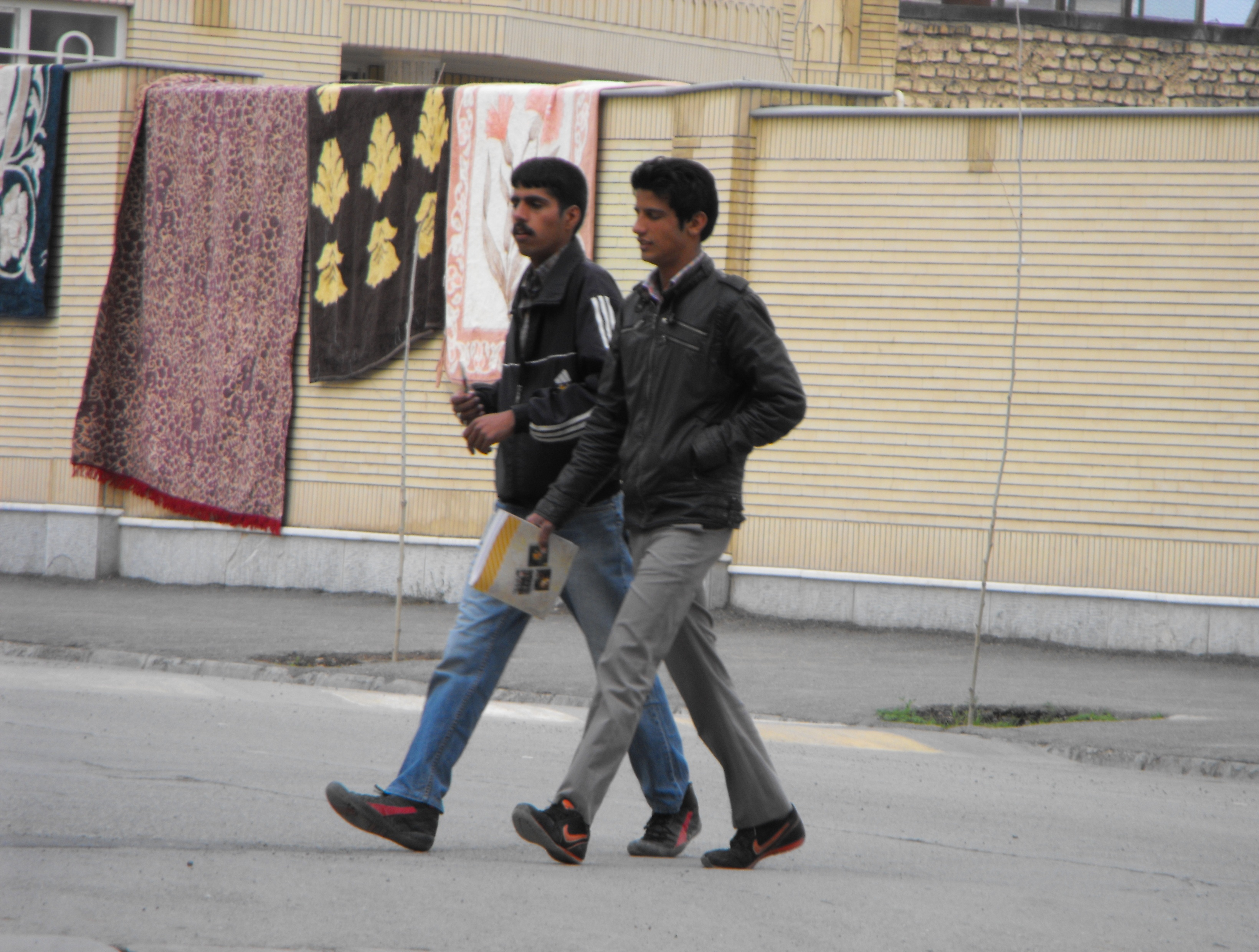 Two Classmate students in the way of their school, in the early morning of Nishapur